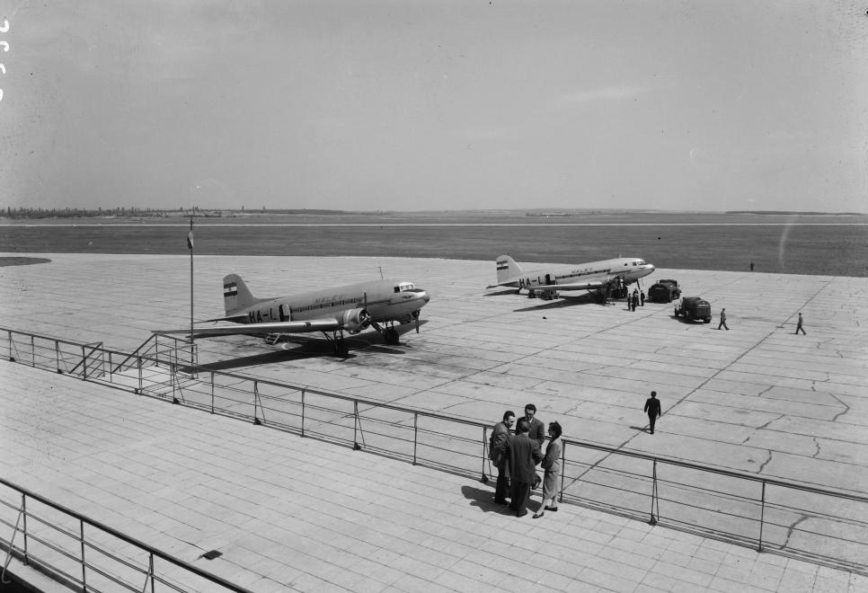 Airport Ferihegy in 1956